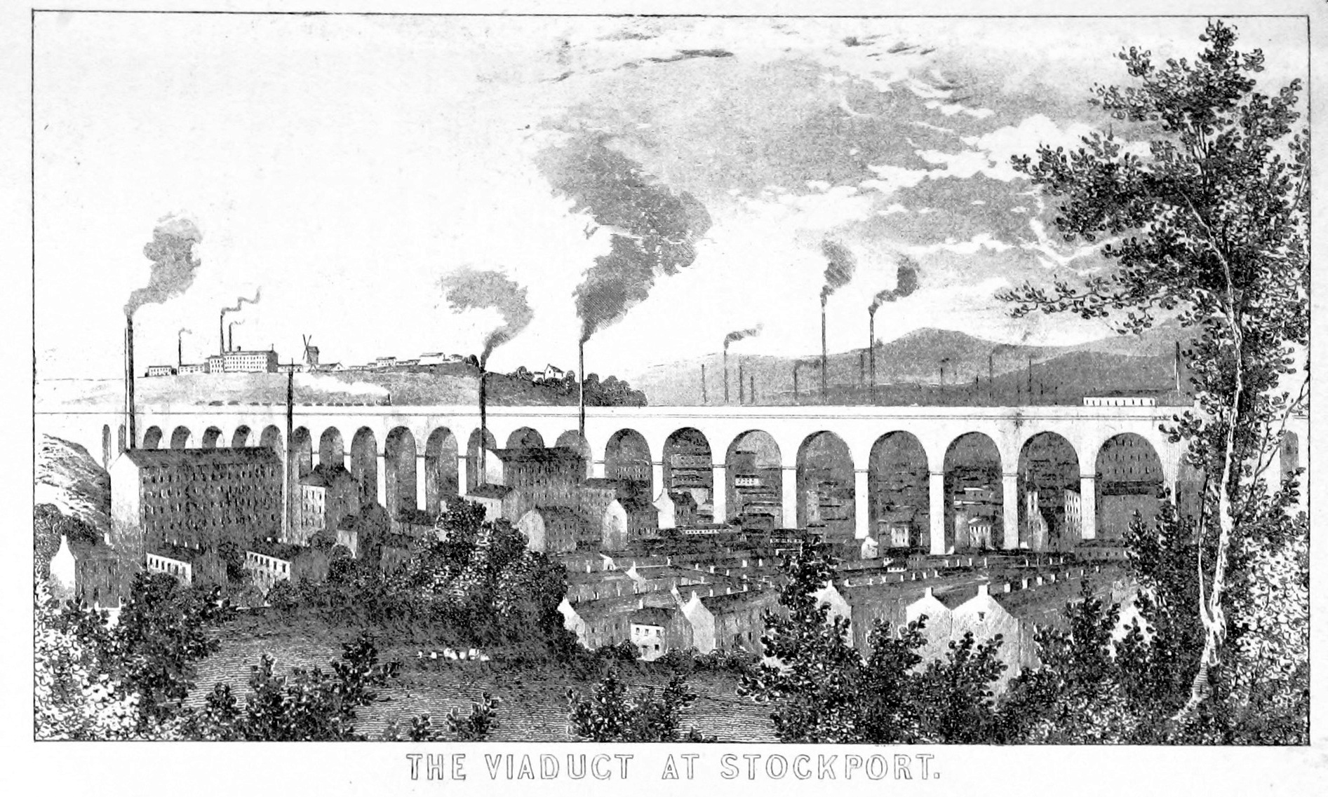 Stockport and the viaduct circa 1854. Greyscale. Levels adjusted. Image taken from: Title: "Bradshaw's Hand-Book to the Manufacturing Districts of Great Britain ... Illustrated with ... county maps" Author: BRADSHAW, George - Publisher of the “Railway Guide.” Shelfmark: "British Library HMNTS 10351.f.2." Page: 79 Place of Publishing: London Date of Publishing: 1854 Publisher: W. J. Adams Issuance: monographic Identifier: 000448950 Note: The colours, contrast and appearance of these illustrations are unlikely to be true to life. They are derived from scanned images that have been enhanced for machine interpretation and have been altered from their originals. If you wish to purchase a high quality copy of the page that this image is drawn from, please order it here. Please note that you will need to enter details from the above list - such as the shelfmark, the page, the book's volume and so on - when filling out your order. Following this or the link above will take you to the British Library's integrated catalogue. You will be able to download a PDF of the book this image is taken from, as well as view the pages up close with the 'itemViewer'. Click on the 'related items' to search for the electronic version of this work. Click here to see all the illustrations in this book and click here to browse other illustrations published in books in the same year. Please click on the tags shown on the right-hand side for other ways to browse the illustrations.